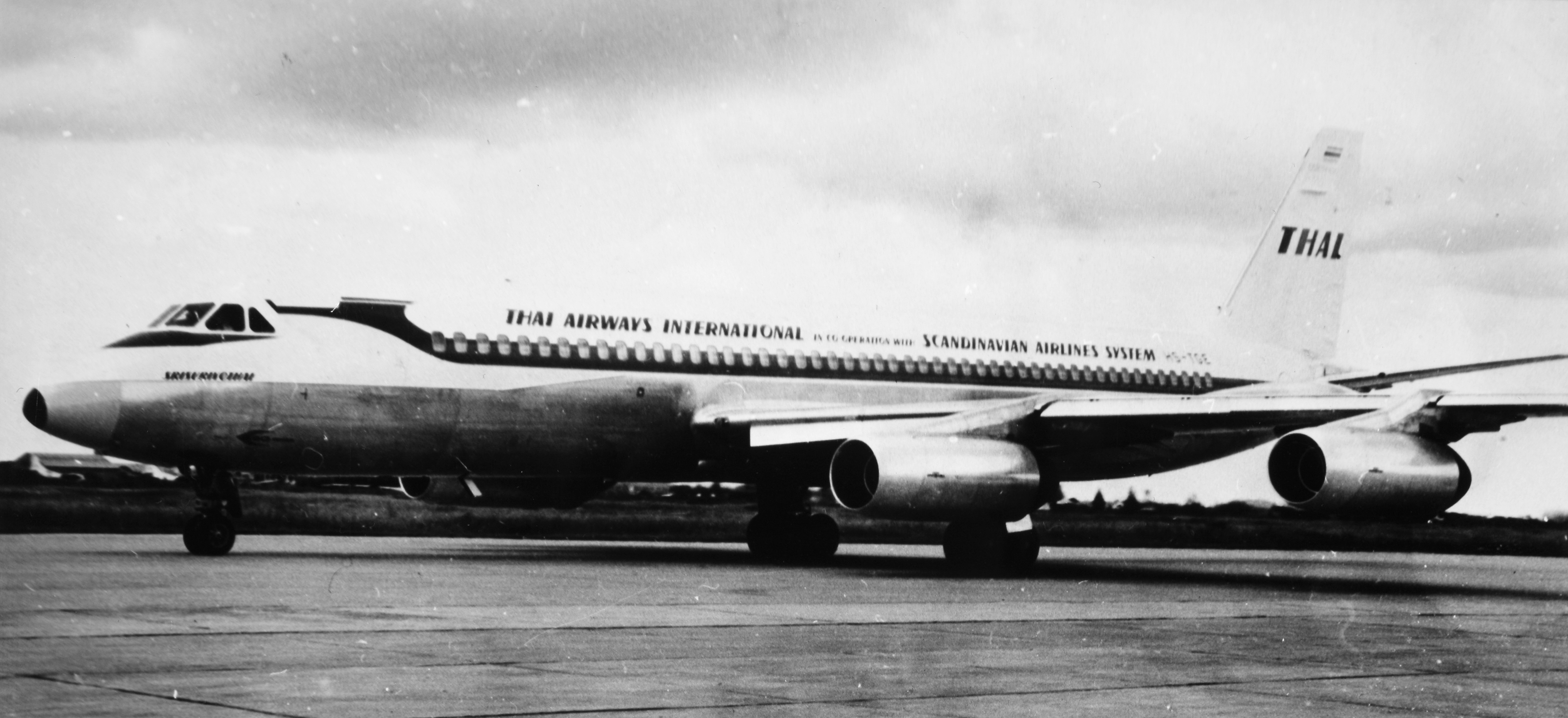 SAS Coronado CV-990 Adils Viking SE-DAY, on the ground. After 1966